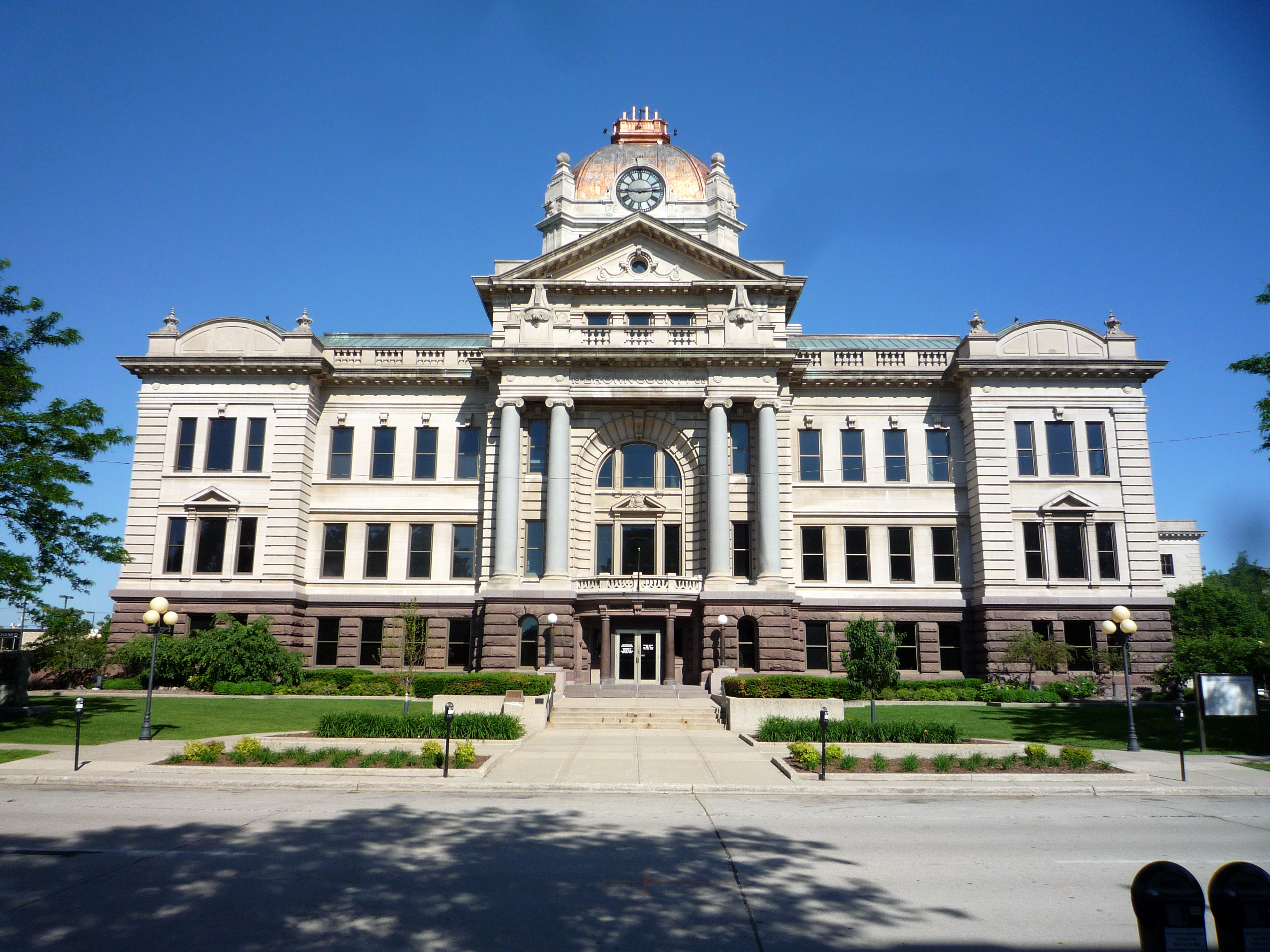 Brown County Courthouse, Green Bay, Wisconsin, USA.